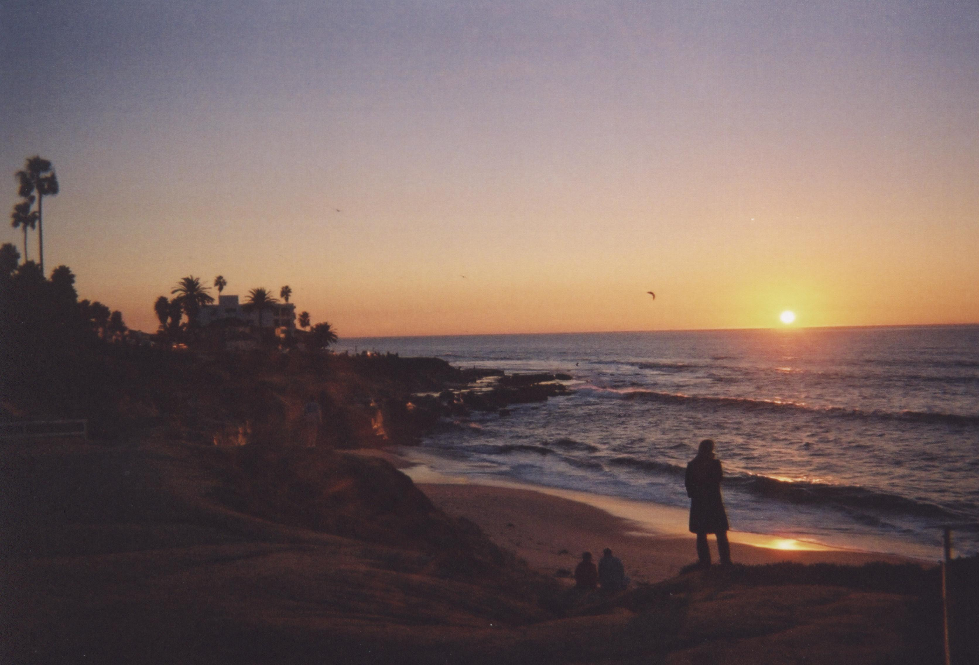 La Jolla Photo: G Larson